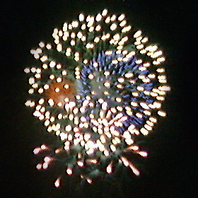 Australia Day Fireworks